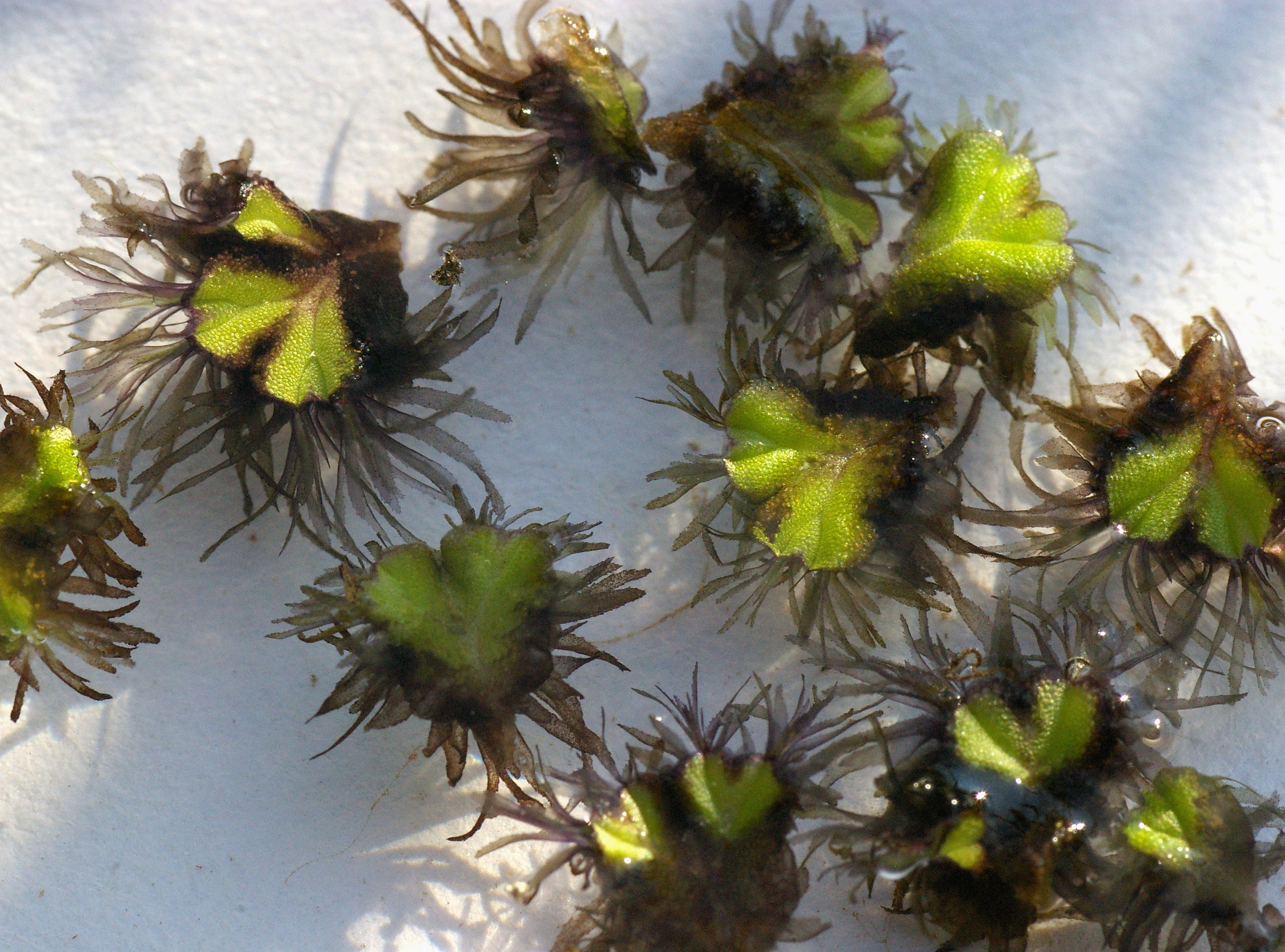 Close-up of the floating liverwort species Ricciocarpos natans. In order to visualize the submerged parts, especially the long scales attached to the undersurface, a piece of paper has been underlayed. (Note: so, these ventral appendices are not the rhizoids!)